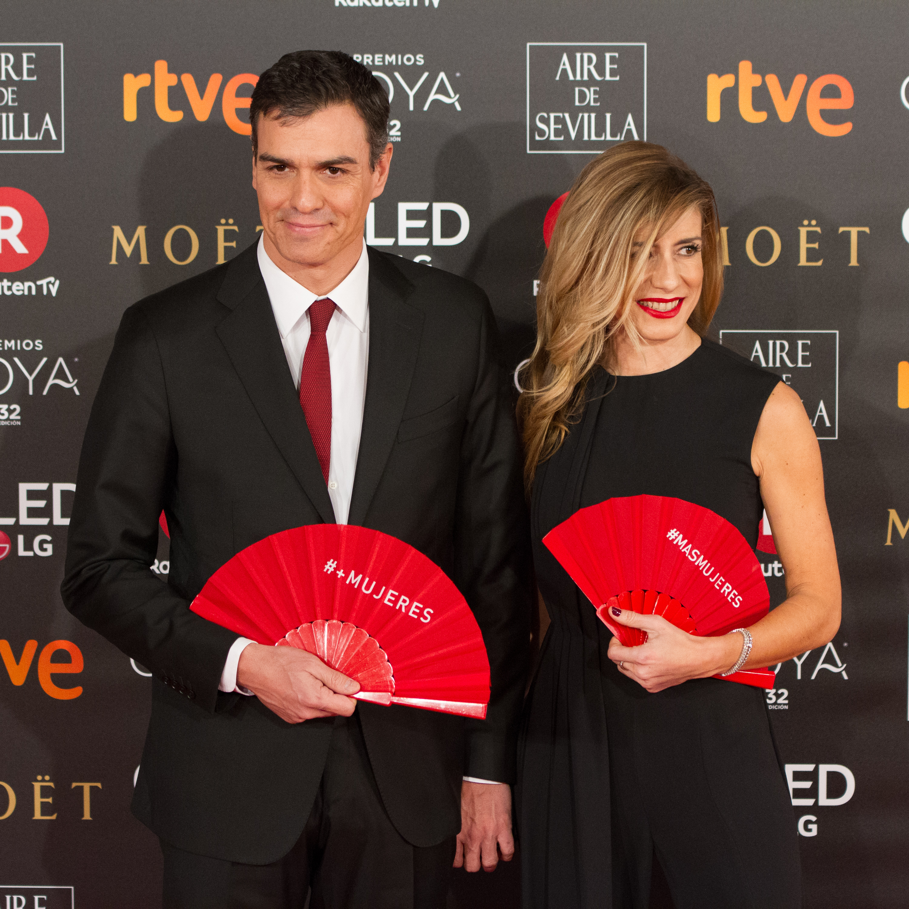 32nd Goya Awards, 2018.